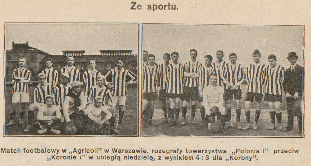 Press note about football match between Polonia Warsaw and Korona Warsaw played 19th November, 1911, published in "Świat" weekly no 47, at 25th November, 1911. Officially 19th of November 1911 is the foundation day of Polonia Warsaw.